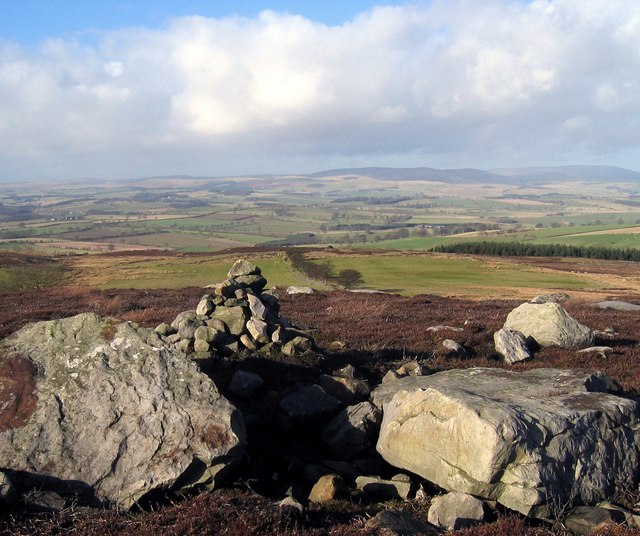 Football Cairn east of Glitteringstone, near to Thropton, Northumberland, Great Britain.